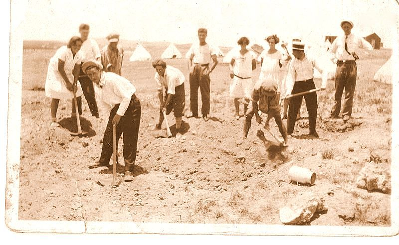 Immigration to Israel